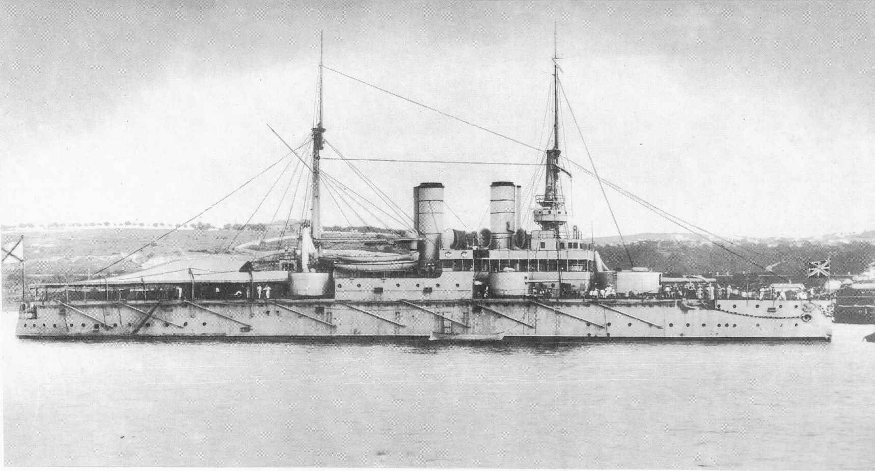 Imperial Russian battleship Rostislav.